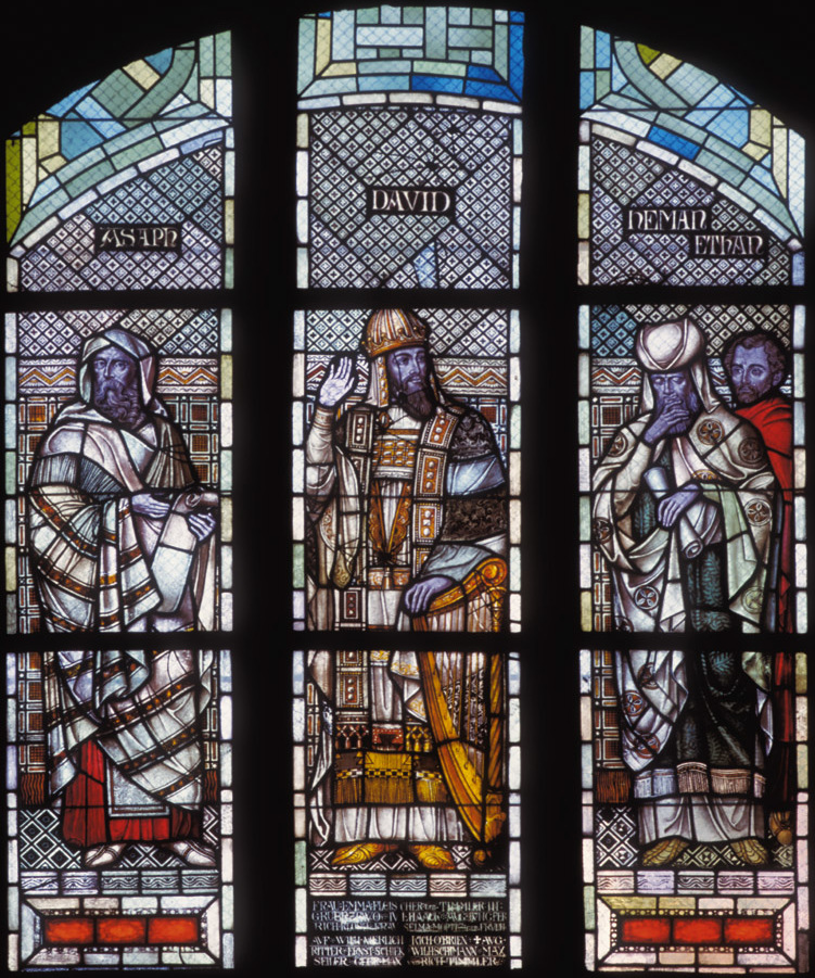 David, Asaph, Deman and Ethan, psalmists of the Old Testament